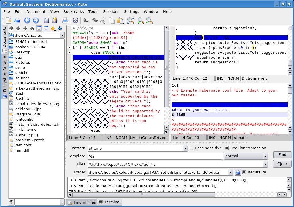 Screenshot of Kate 2.5.4 showing 3 open files, a sh script, a C source file and a diff, each with syntax highlighting. The bottom right part shows a "grep-like" tool ("Find in Files").